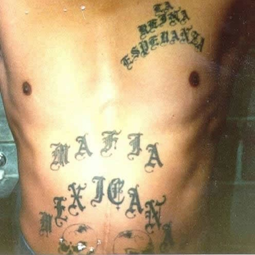 Mexican Mafia tattoo.